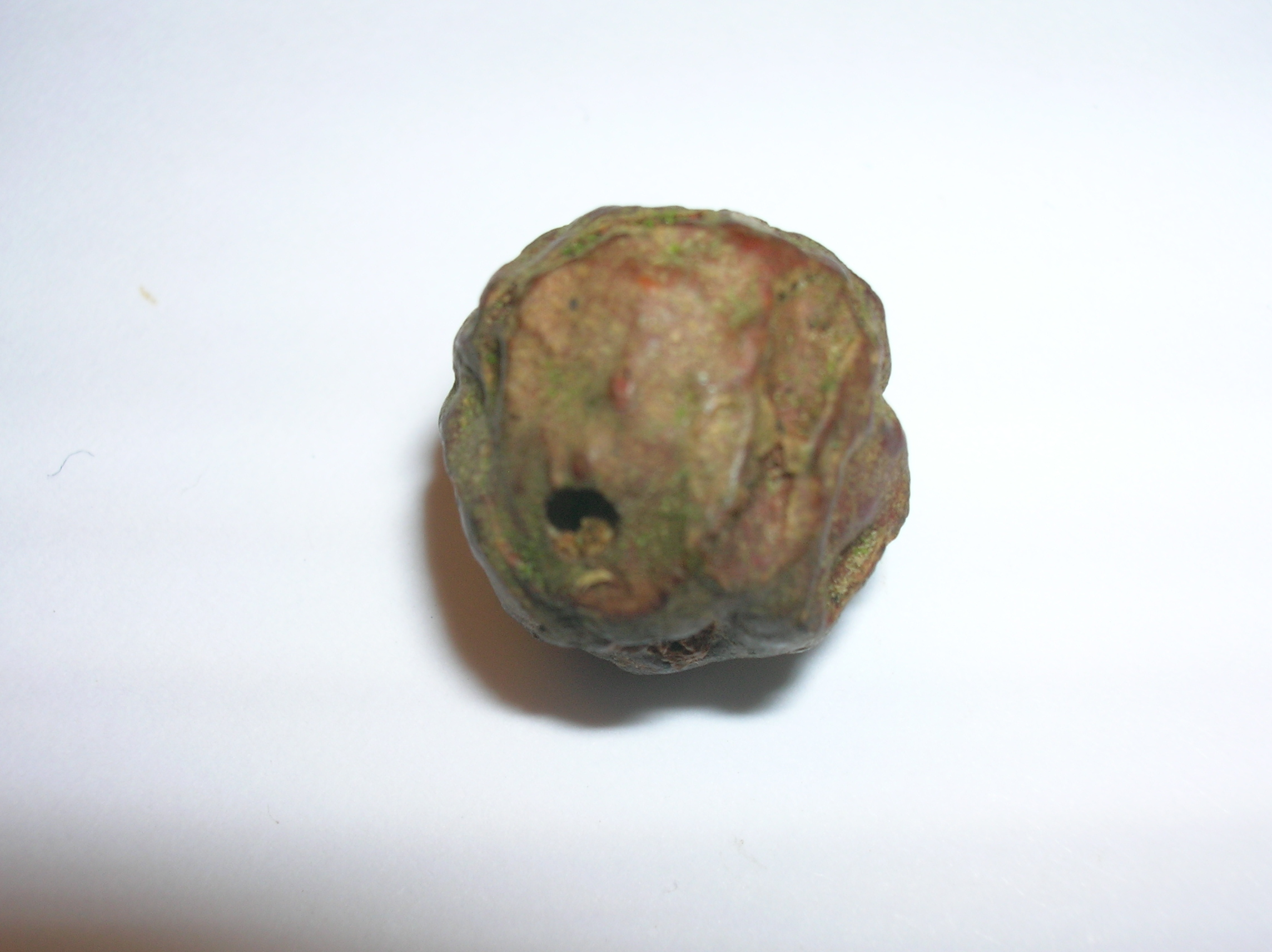 A Cola-nut gall showing the exit hole of the gall wasp. Spier's, Beith, North Ayrshire, Scotland.